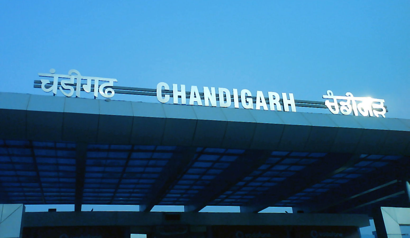 Railway Station, Chandigarh